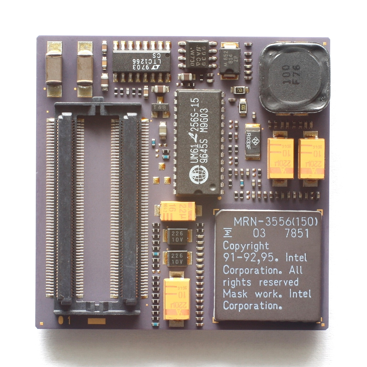 CPU Fujitsu Mobile Pentium 150 MHz